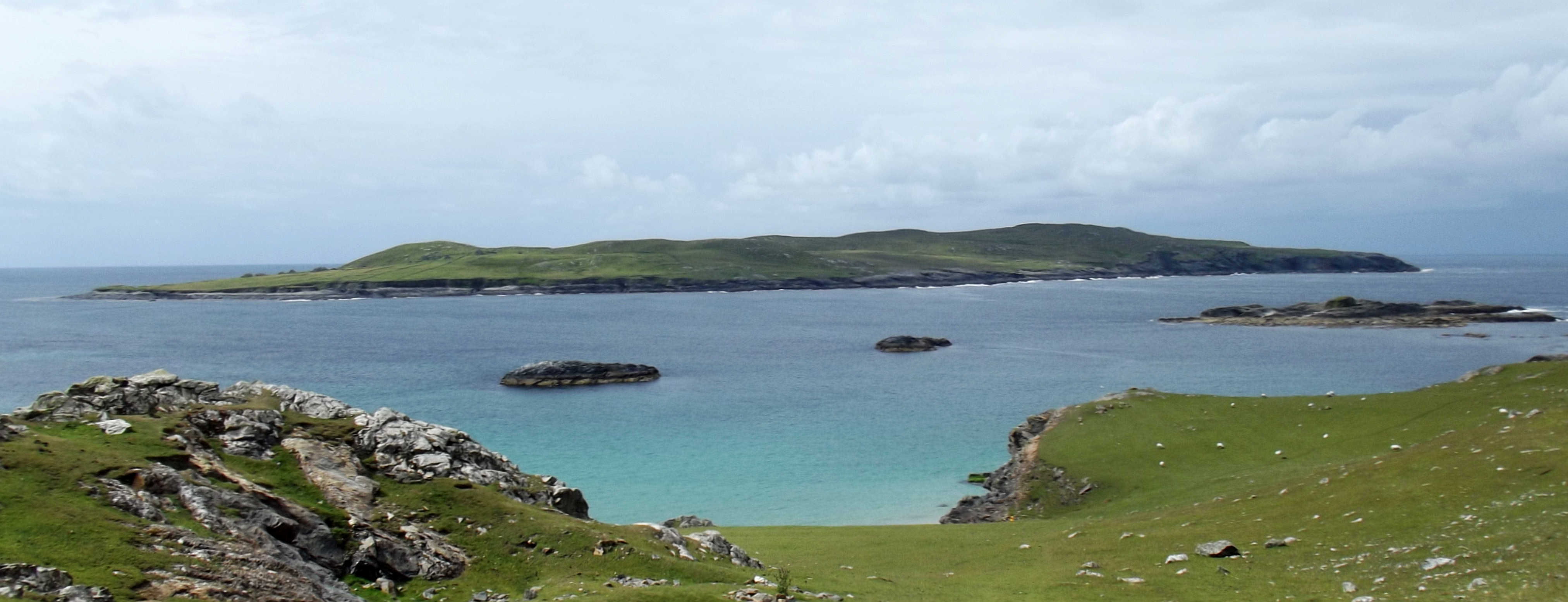 Inishark - August 2013Gaeilge: Inis Airc - Lúnasa 2013